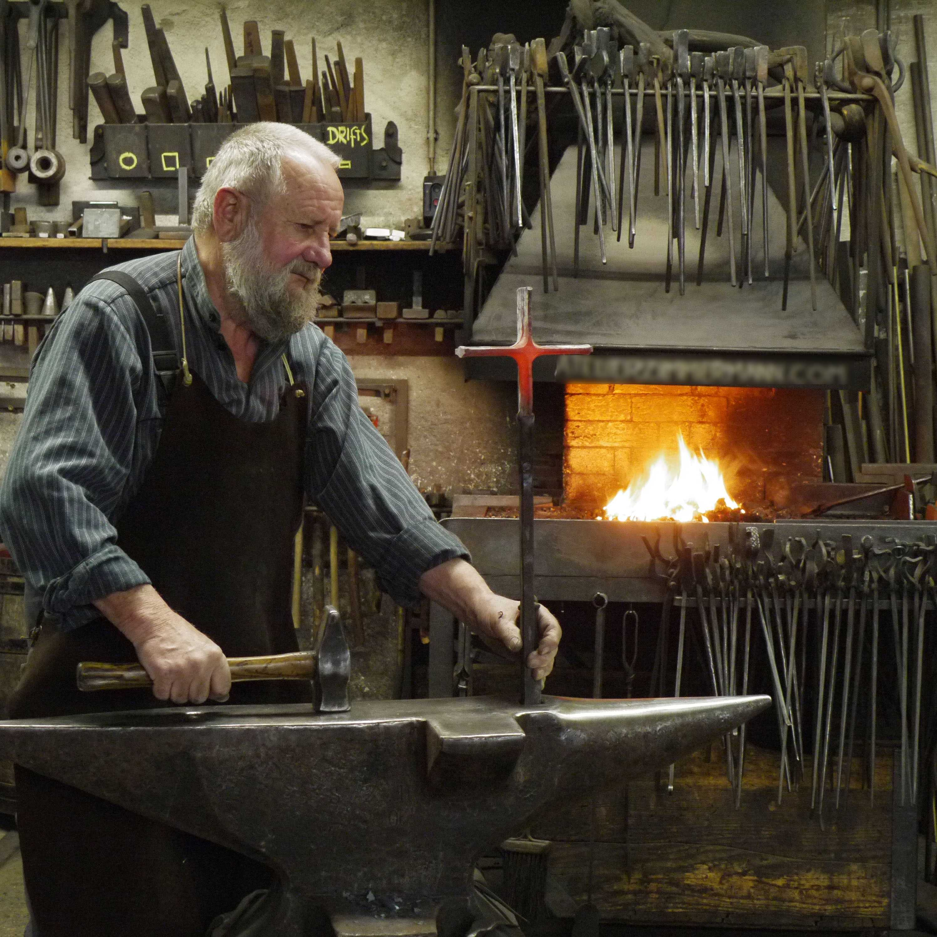 Paul Zimmermann, Artist, Blacksmith, GermanyDeitsch: Paul Zimmermann, Künstler, Kunstschmied, Metallgestalter